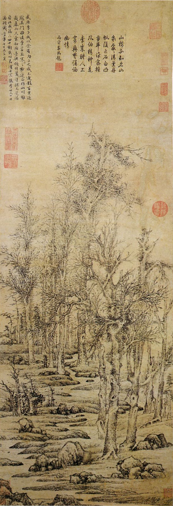 Wintry trees after Li Cheng,hanging scroll,ink and light colors on paper 倣李成寒林図 紙本墨画